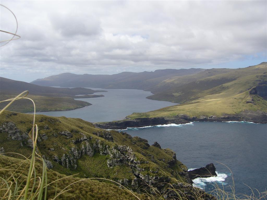 Auckland Island with Carnley Harbour and Adams Island - Looking East. Auckland Islands, New Zealand